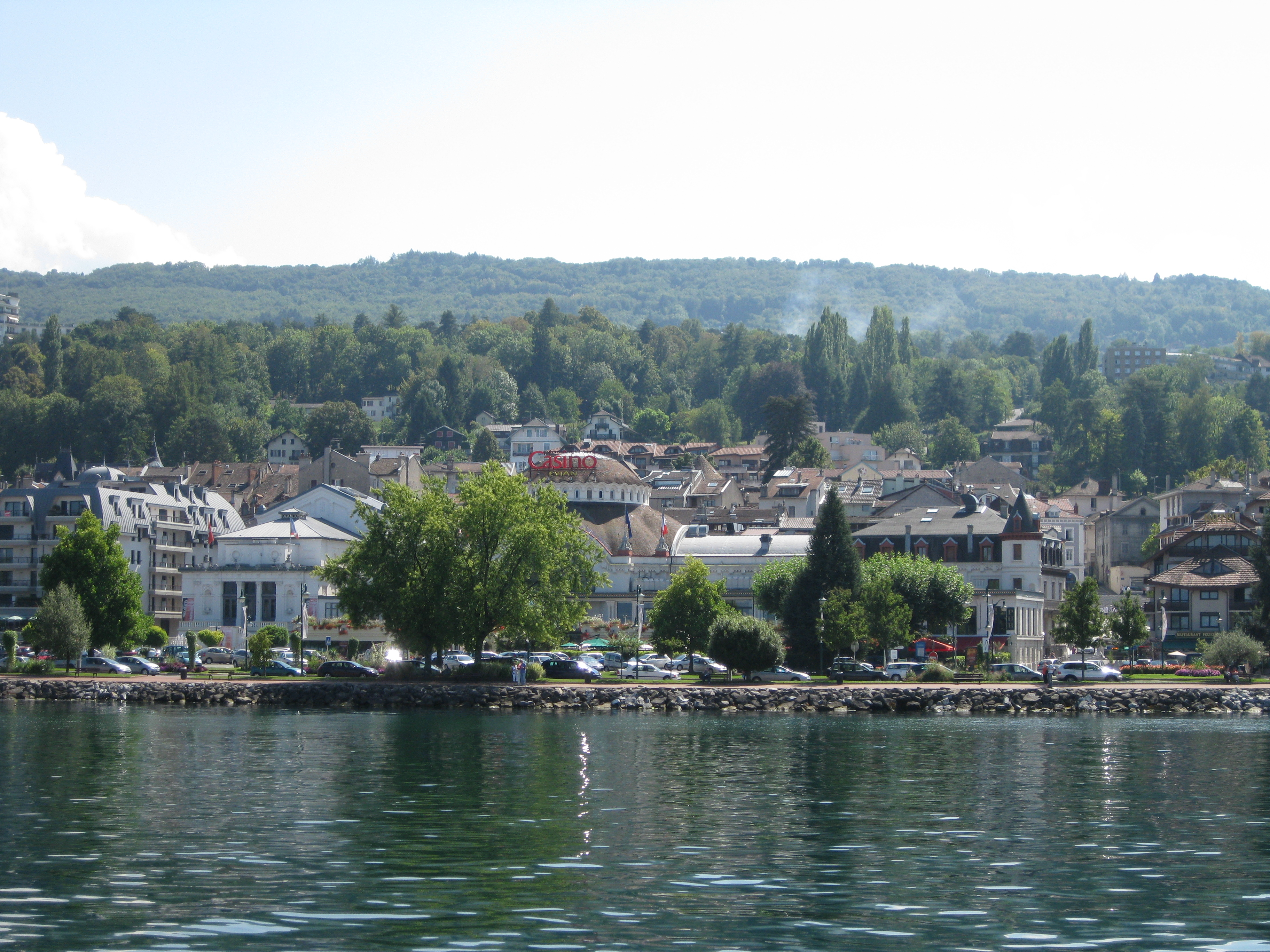 Around the lake of Geneva, Switzerland / France. Location see geotag.